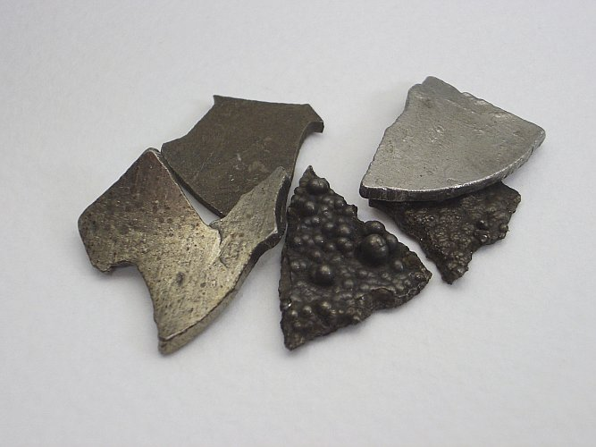 Pieces of cobalt metal with corrosion on one side